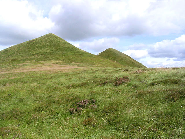 The Maiden Paps Viewed from moorland terrain north of Scaw'd Law with the 500m summit of the higher pap on the left. The twin summits form a distinctive outline when travelling south on the A7 approaching Hawick.